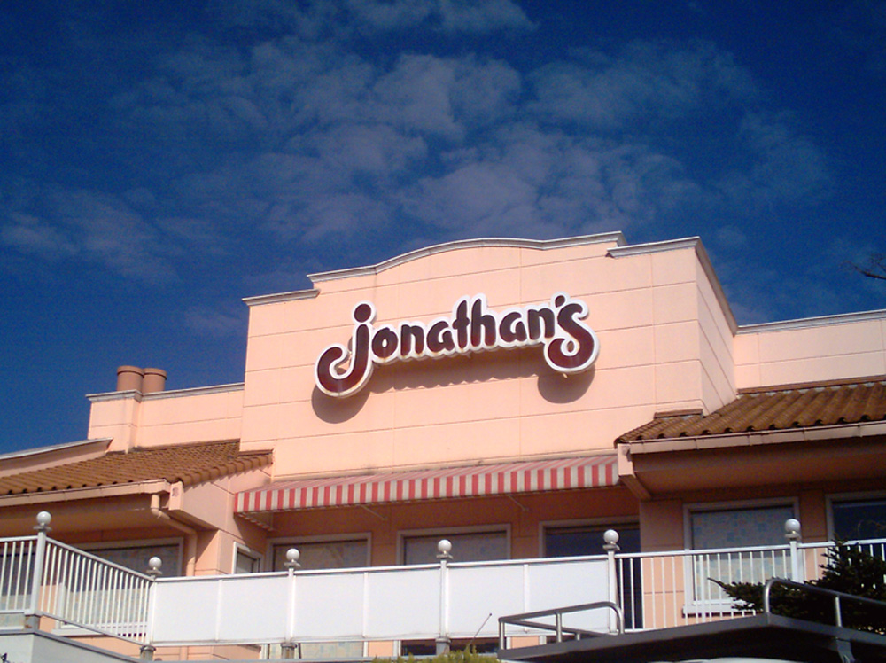 Jonathan’s Restaurant in Japan photography day, 2006/11/21 photography person kici